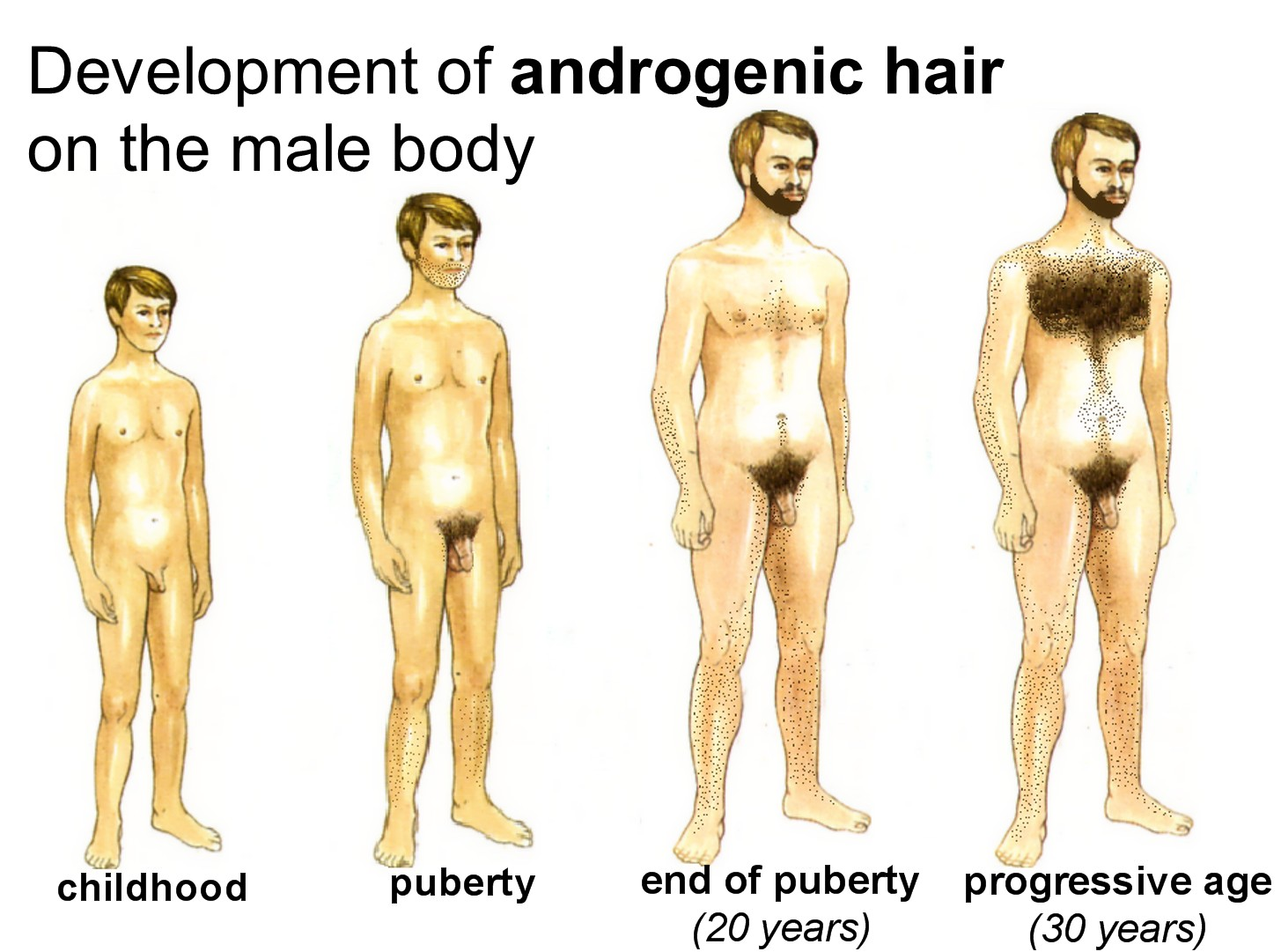 Development of androgenic hair (body hair) on the male body due to puberty